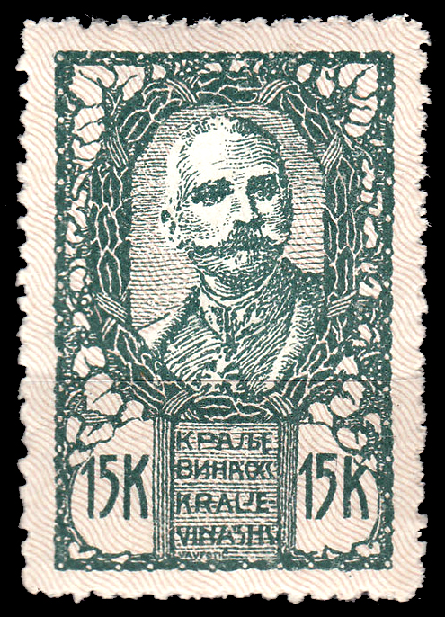 Postage stamp from the Verigar issue issued in Slovenian regions of the State of Slovenes, Croats and Serbs, 15 krona, king Peter I Karageorge, 1920